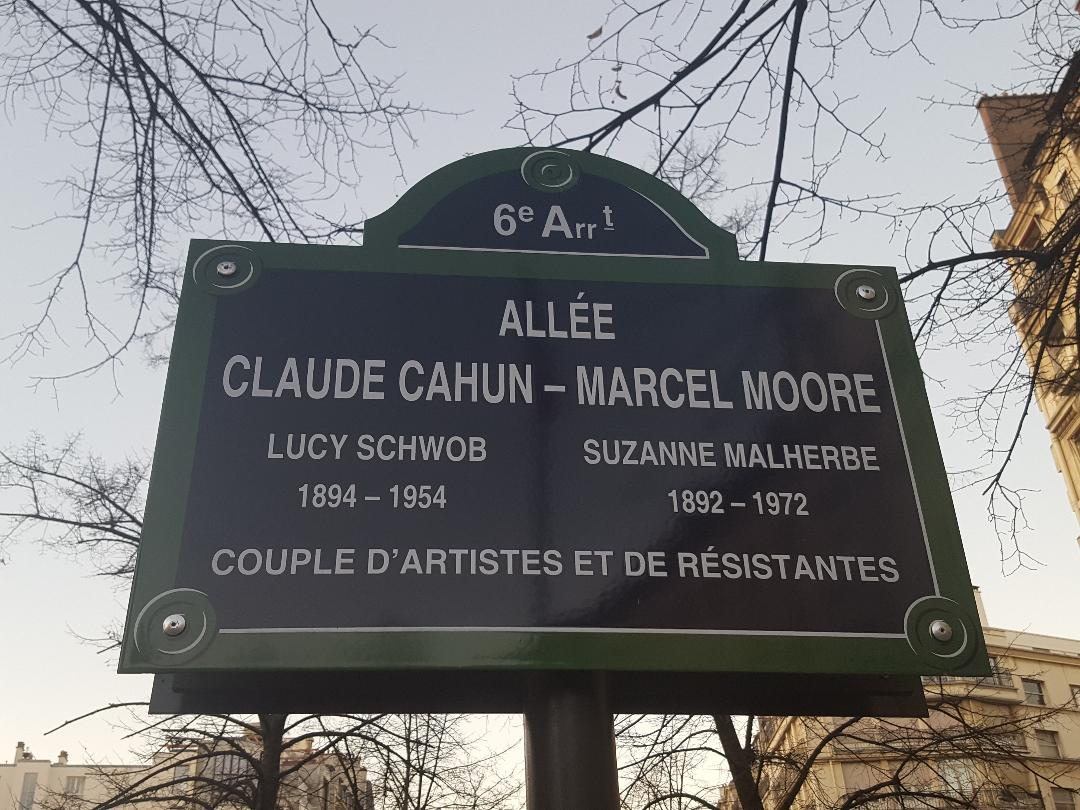 Street sign Claude Cahun (Lucy Schwob) - Marcel Moore (Suzanne Malherbe) Paris. 6th arrondissement